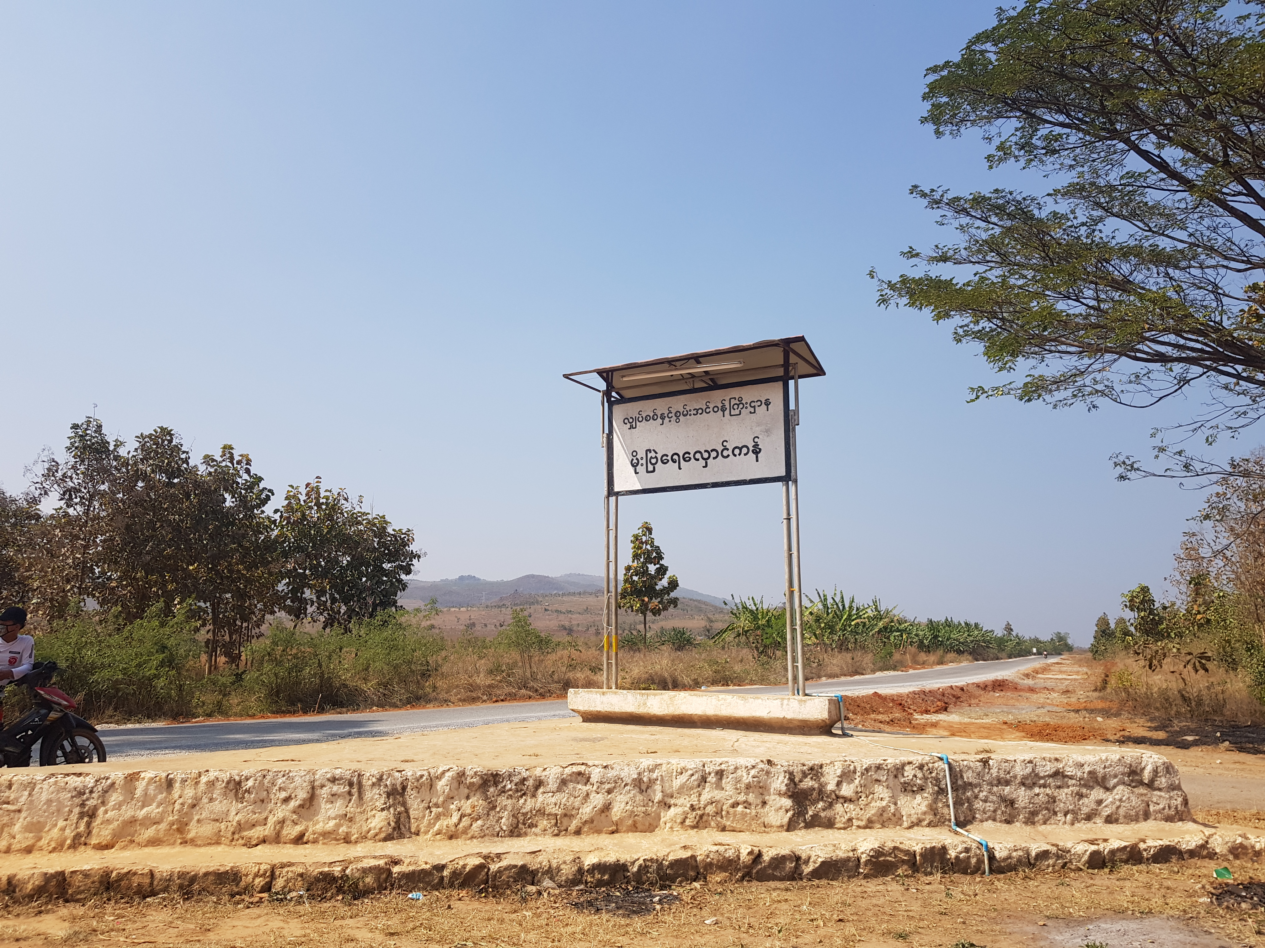 Entrance